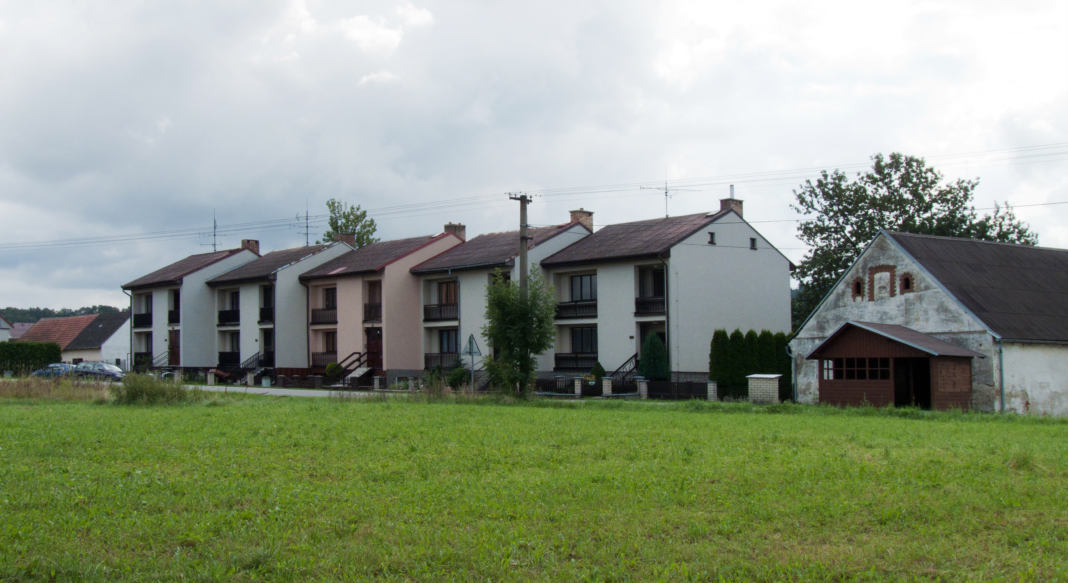 Terraced houses along the road to Mladá Vožice in the village of Ratibořské Hory, Tábor District, Czech Republic